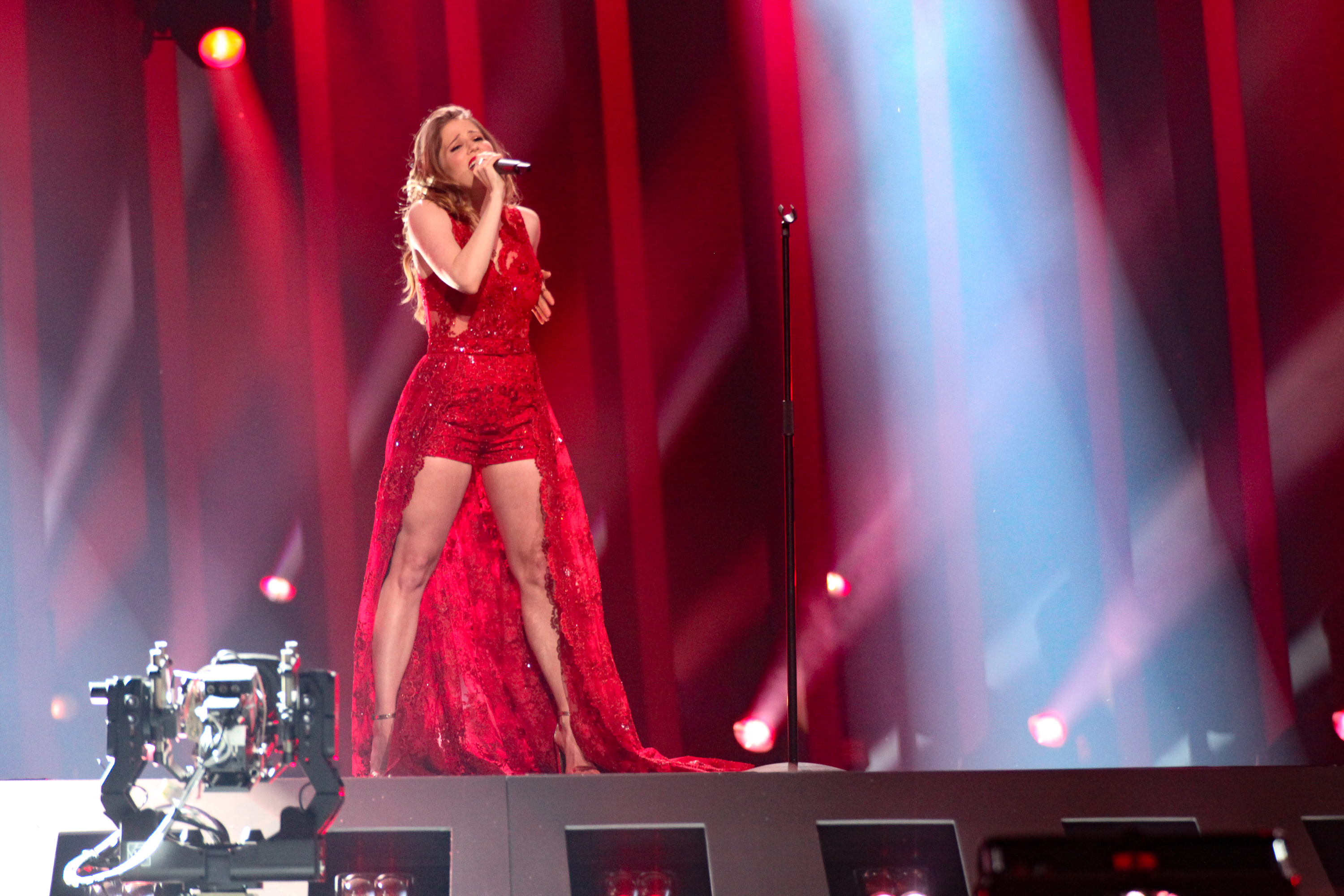 Laura Rizzotto representing Latvia with the song "Funny Girl" during a rehearsal before the second semi final of the Eurovision Song Contest 2018 in Lisbon.